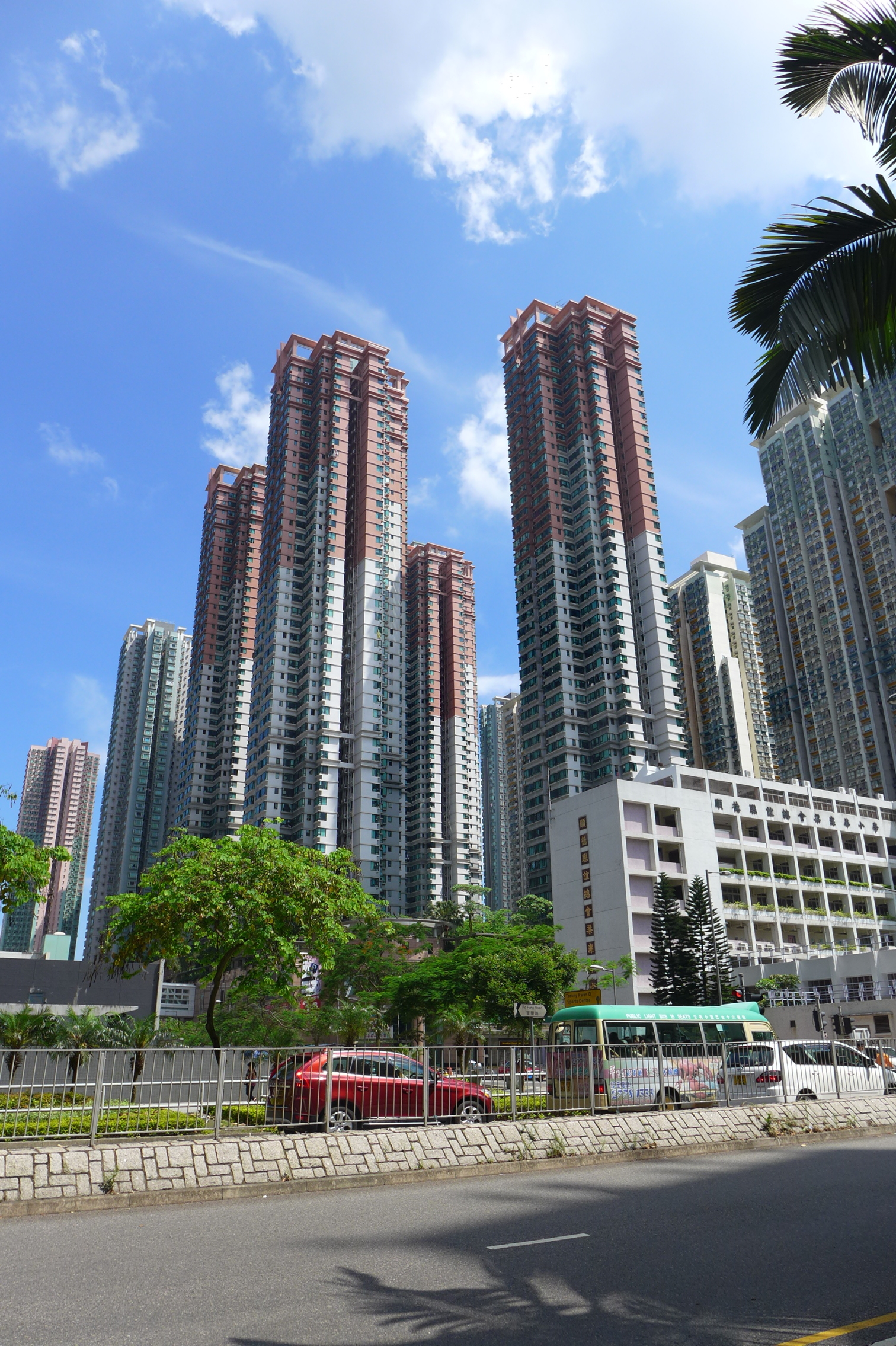 Metro City Phase 3